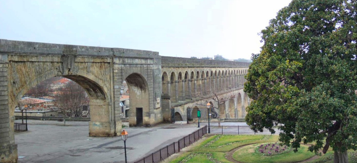 The aquaduct in Montpellier, France. (Photo taken by Ellen Bicknell (who gives consent to GFDL), processed by me.)